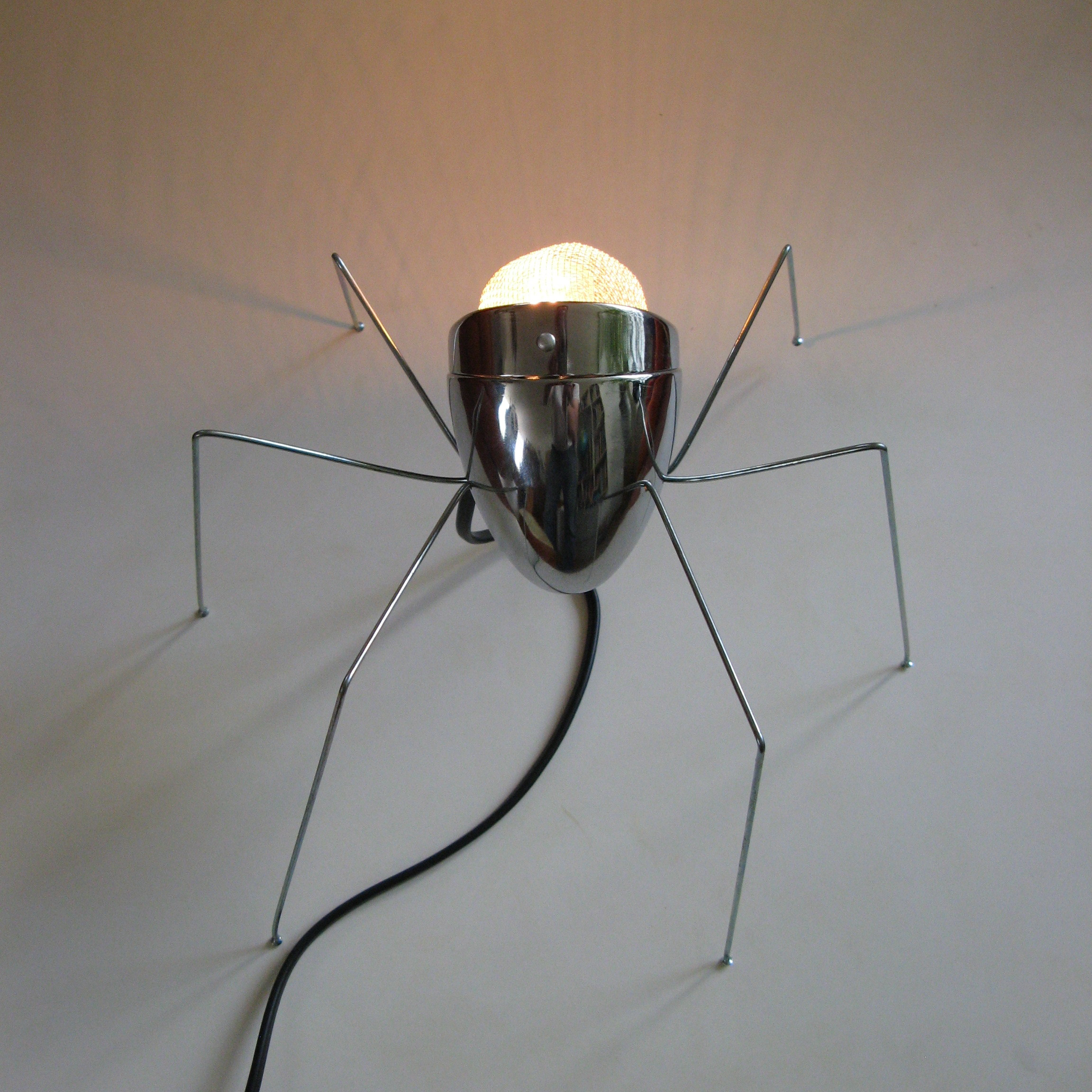 The spiderlight designed by Marcel Douwe Dekker in 1994: The spiderlight is a recreation of a bicycle headlight and six spokes into a spider light, which can hold itself to the wall.